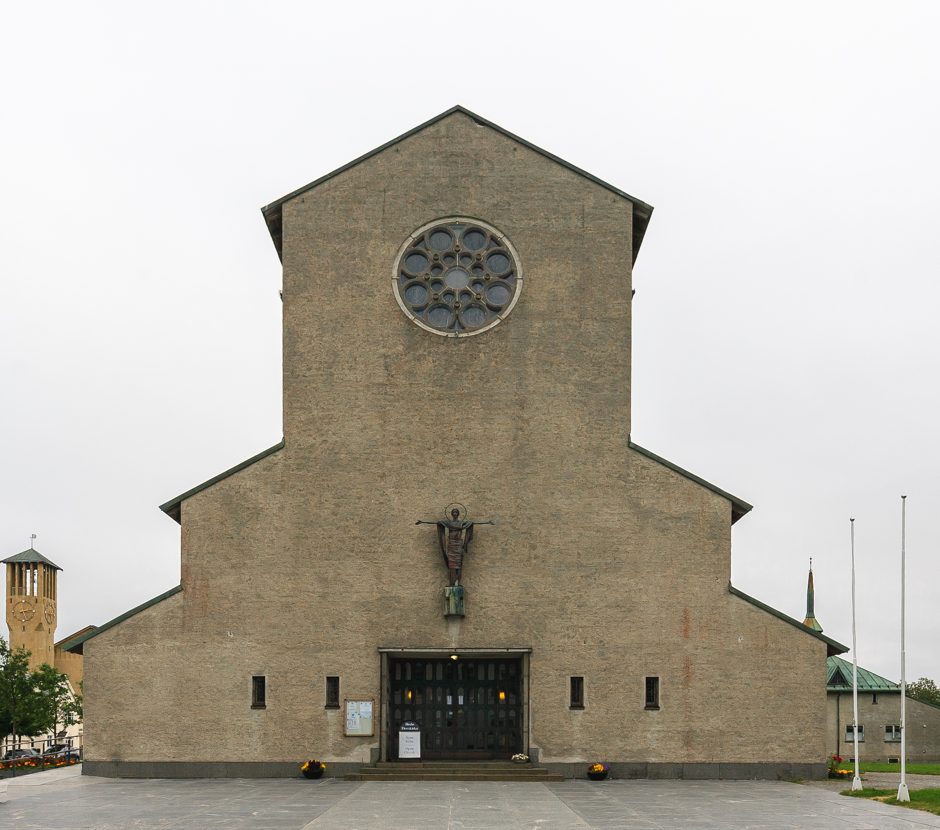 Front side of the cathedral of Bodø. It was inaugurated 1956.